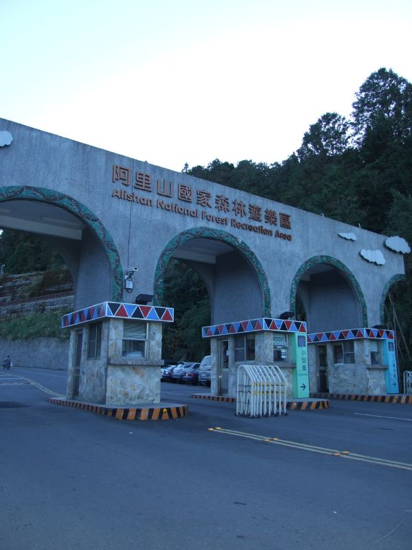 The main entrance of Alishan National Forest Recreation Area.